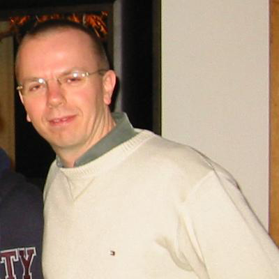 Col Needham at a party for Directors of Spanish language films at the 2002 Sundance Film Festival.